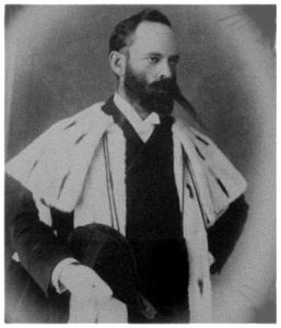 Sir David de Villiers Graaff, 1st Baronet (1859-1931), South African politician